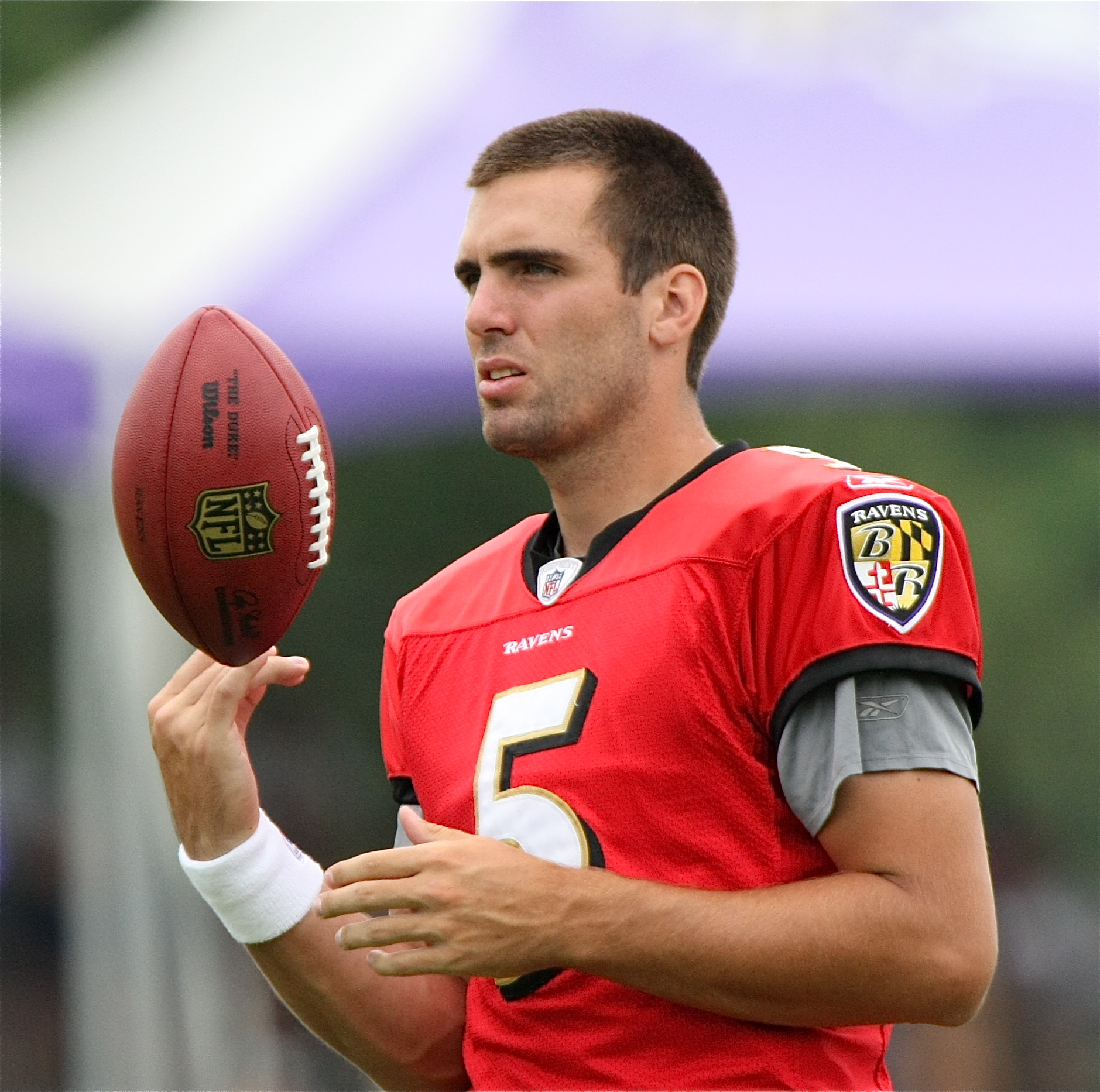 Joe Flacco